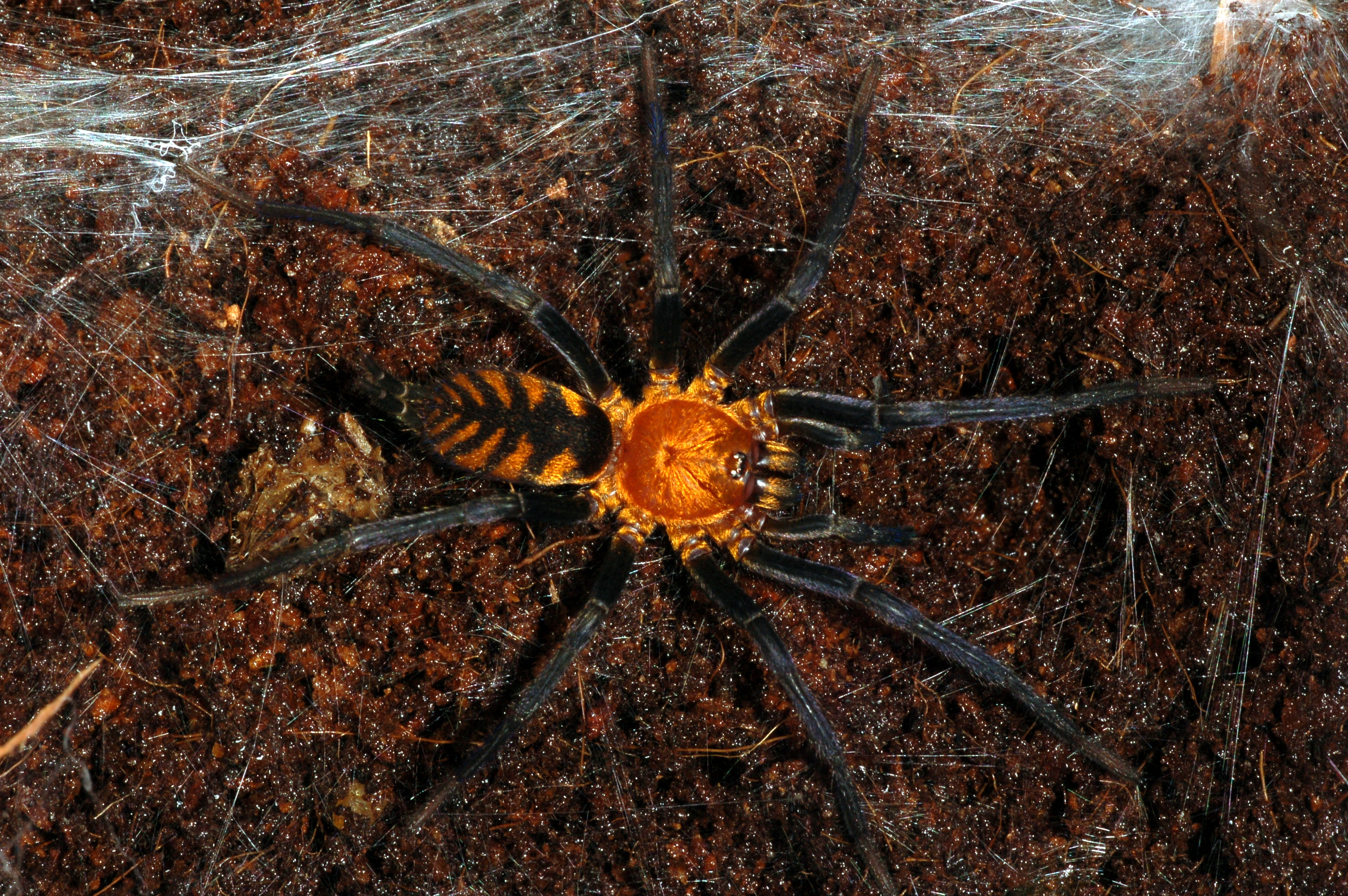 The spider Linothele fallax (Family Dipluridae) in captivity, Museum Wiesbaden, Germany